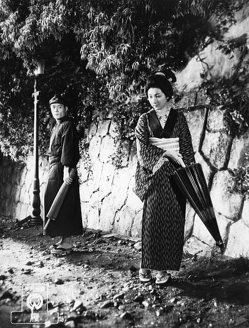 Hiroshi Akutagawa and Hideko Takamine in Gan (雁) directed by Shirō Toyoda - 1953